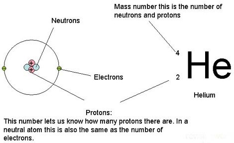 An explanation of the superscripts and subscripts seen in atomic number notation.